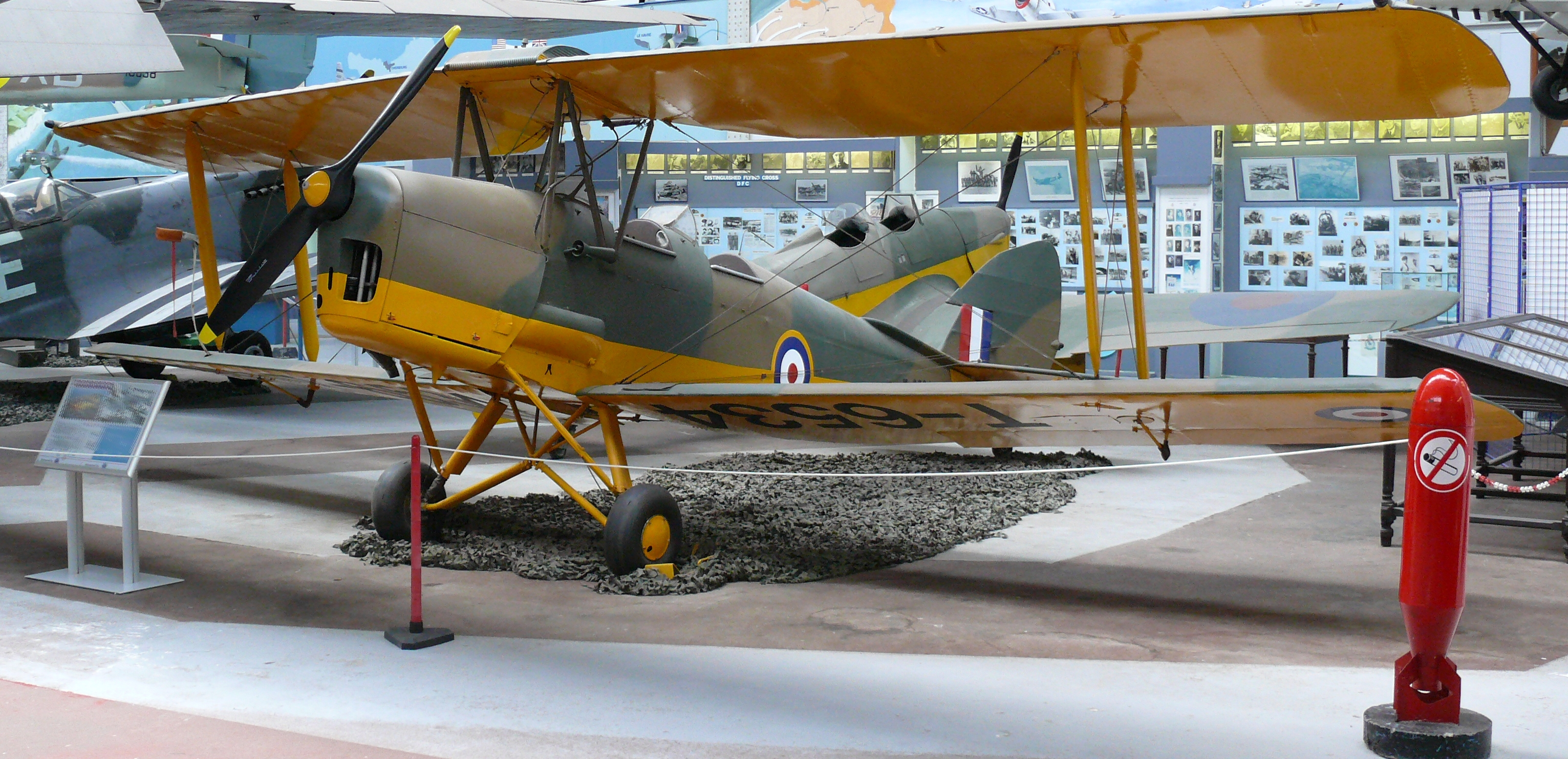 de Havilland DH.82A Tiger Moth in the Royal Military Museum at the Jubelpark, Brussels.